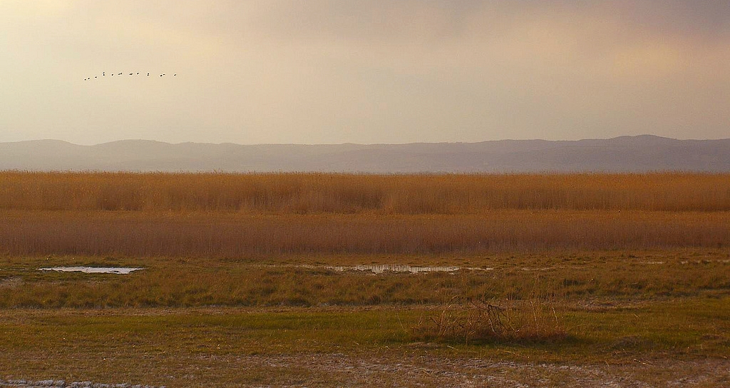 Short eared Owl Habitat Seewinkel Austria